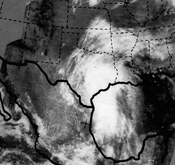 Tropical Storm Candy over Texas on June 23, 1968.